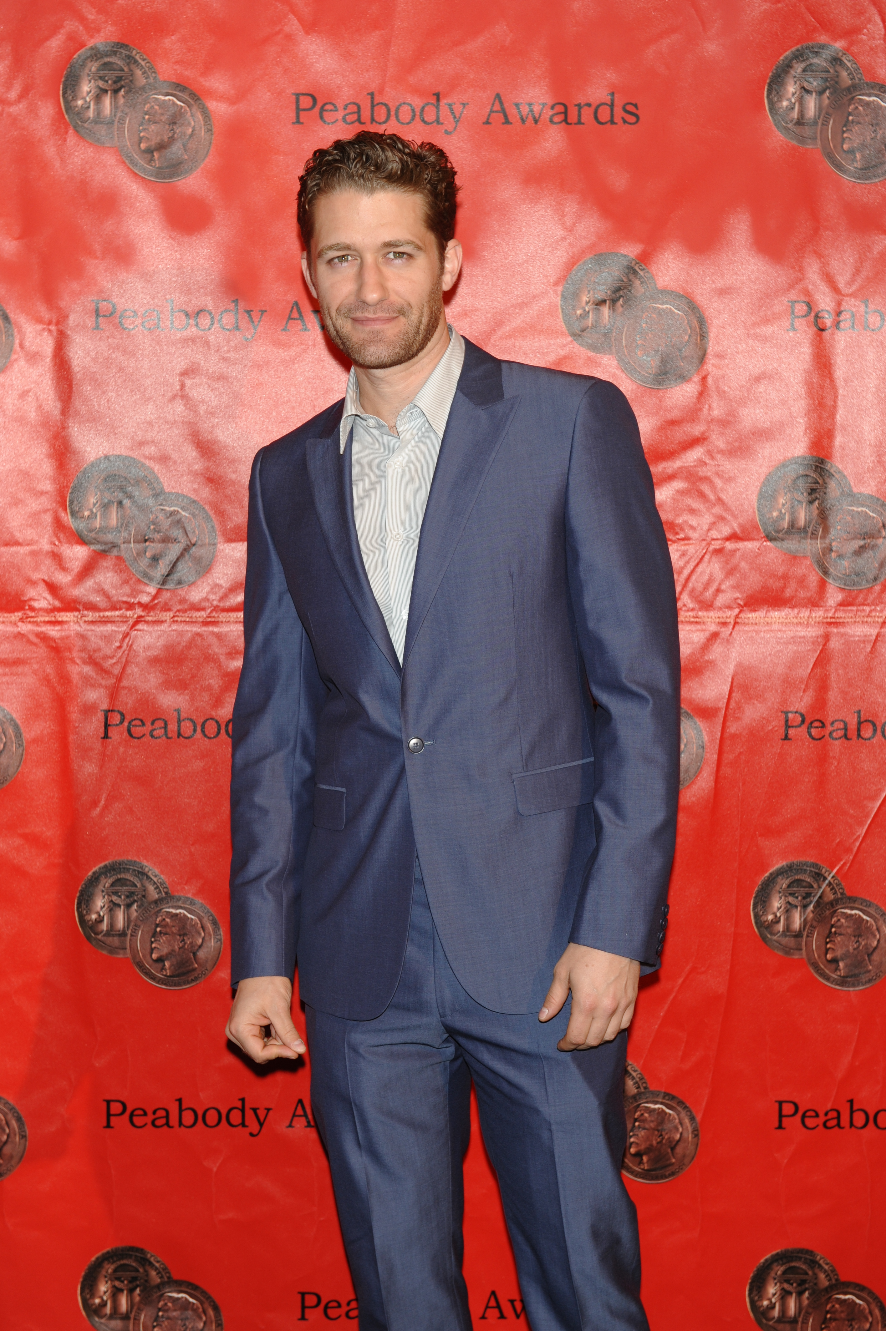 Matthew Morrison 69th Annual Peabody Awards Luncheon Waldorf=Astoria Hotel New York, NY USA May 17, 2010